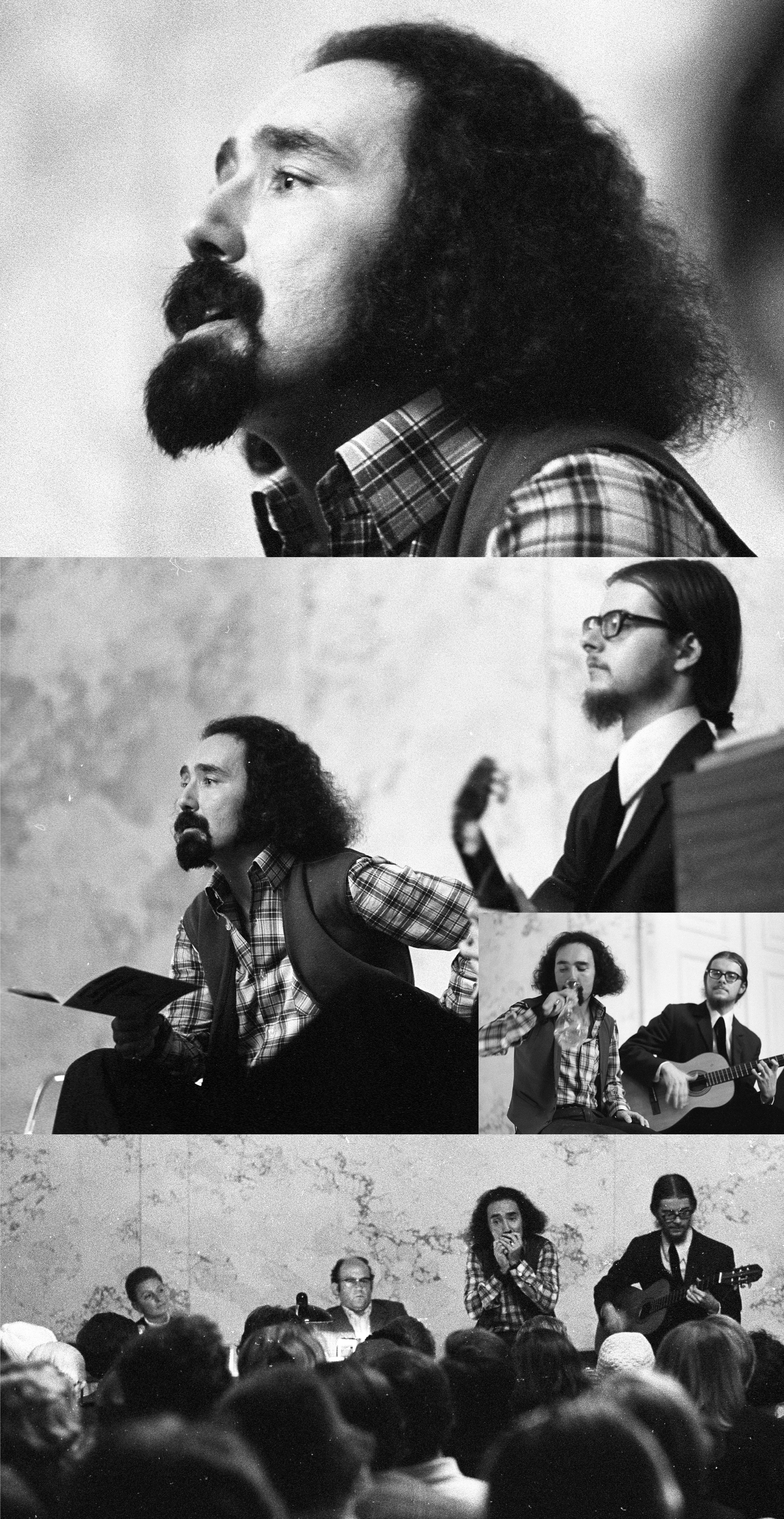 Peter Henisch reading from his work, as well as singing and playing. Shots were taken with available light, with 85mm and 35mm lenses on Nikon F2, on Kodak's Tri-X, which was over-developed in Microdol).